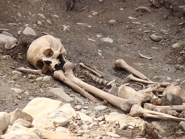 Archeology of Sanok